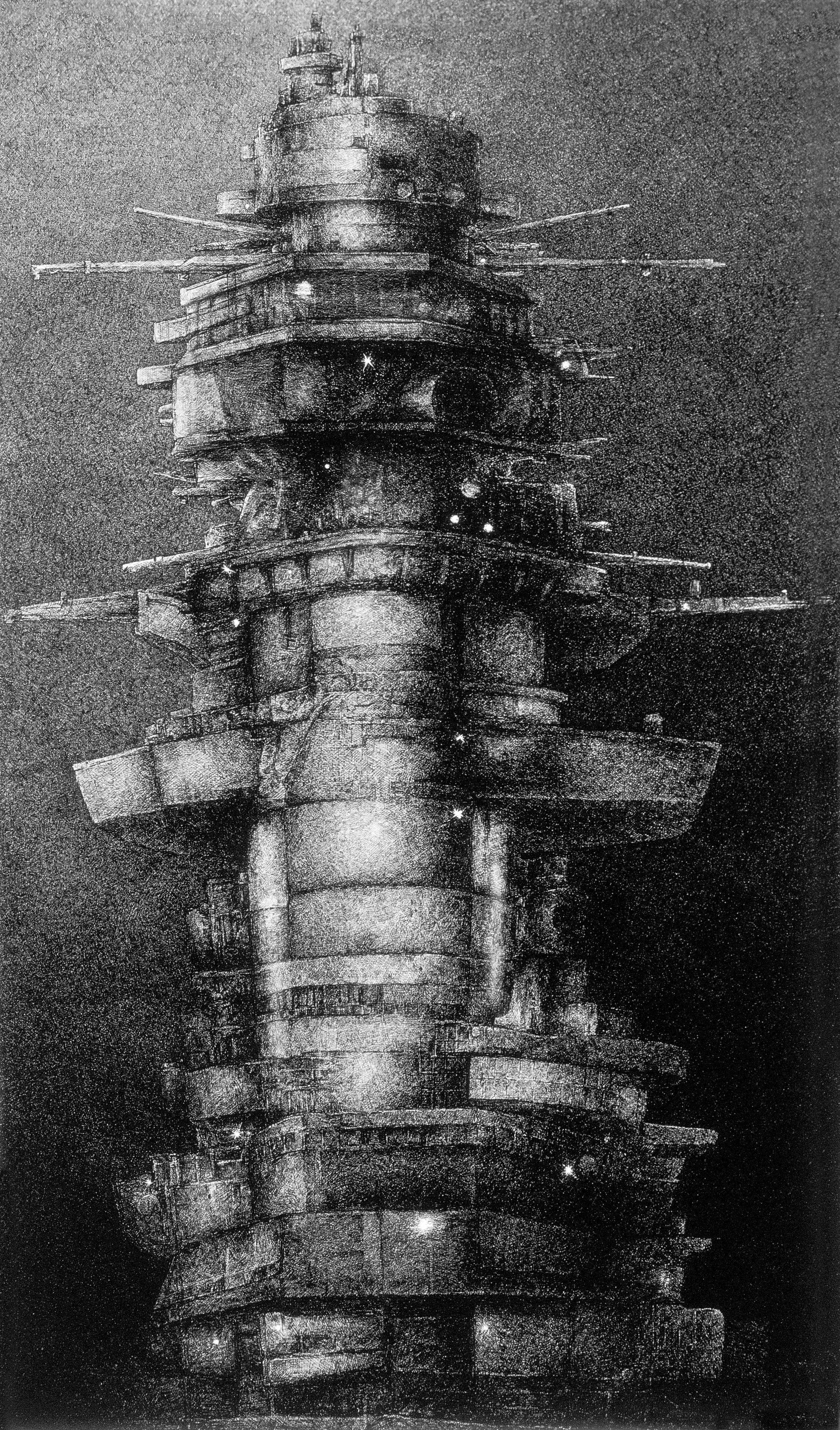 Paweł Warchoł - Ironclad 97 from the series “Ironclads”.